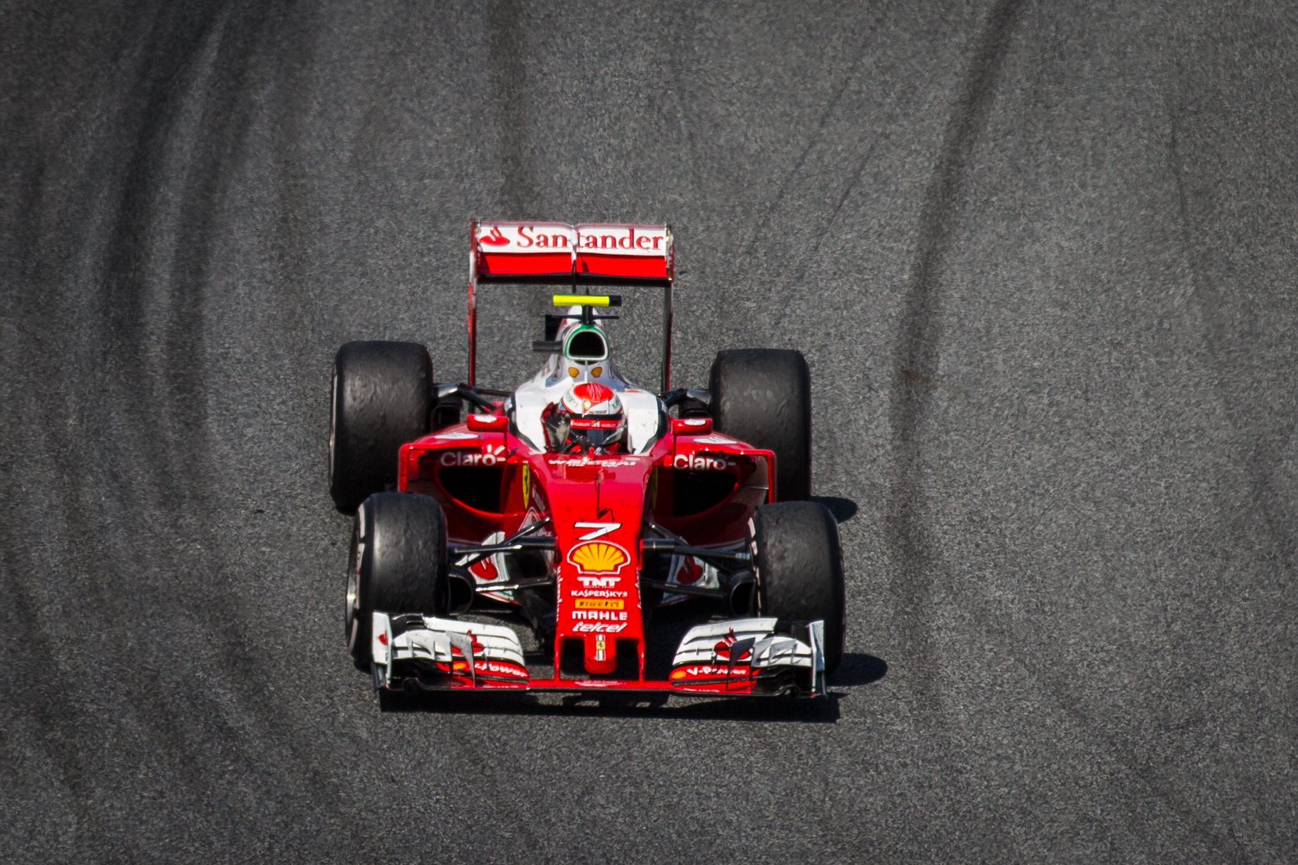 Kimi Räikkönen at the 2016 Spanish Grand Prix